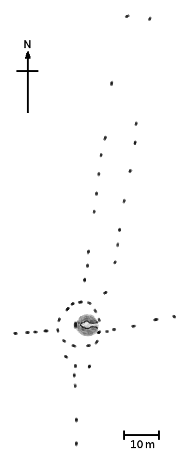 Simple plan of the Callanish Stones (Callanish I), on Lewis in the Outer Hebrides, Scotland. Based on that in James Fergusson (1872) Rude Stone Monuments in All Countries: Their Age and Uses page 259. The original was apparently drawn by Henry James, but he made some mistakes (such as the alignment of the central tomb), so I've made some small adjustments to bring this plan up-to-date.